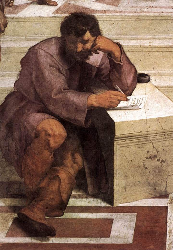 Detail of The School of Athens showing Heraclitus and Michelangelo Buonarroti as one person